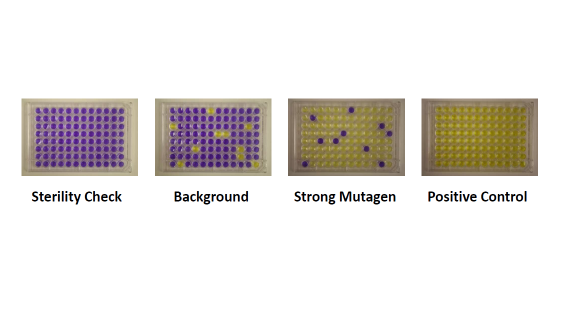 Photo of Ames fluctuation test results